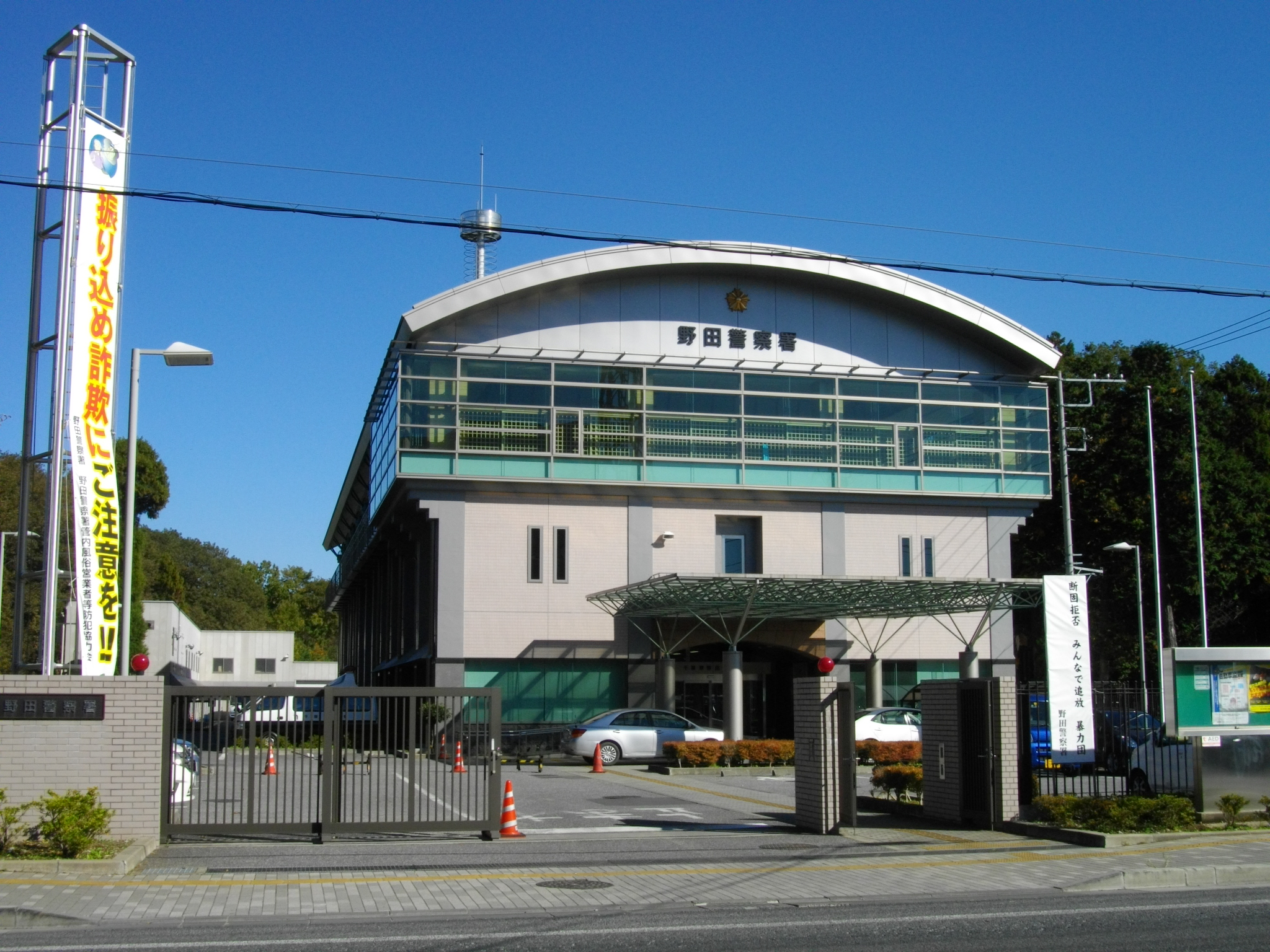 Noda Police Station